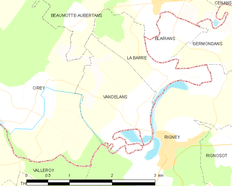 Map of French municipality